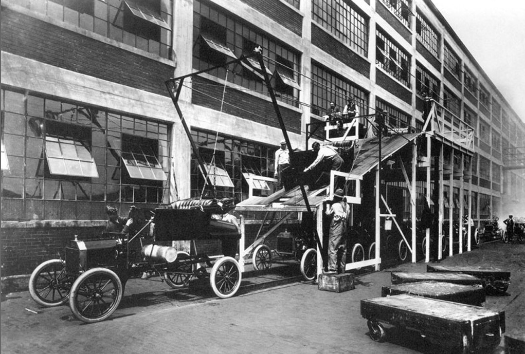 1913 photograph Ford company, USA